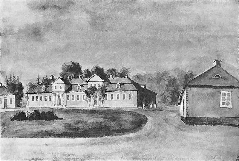 Manor of Mierzejewskich (old Niesiołowskich), Varoncza, Belarus. Drawing by Napoleon Orda.